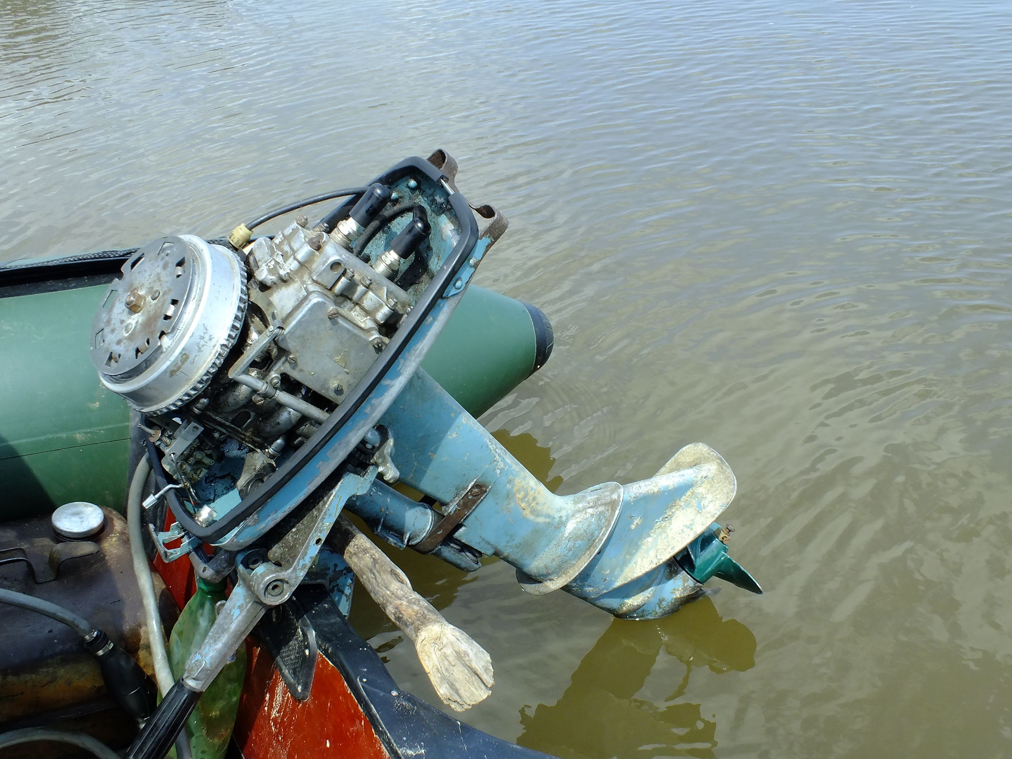 Outboard motors